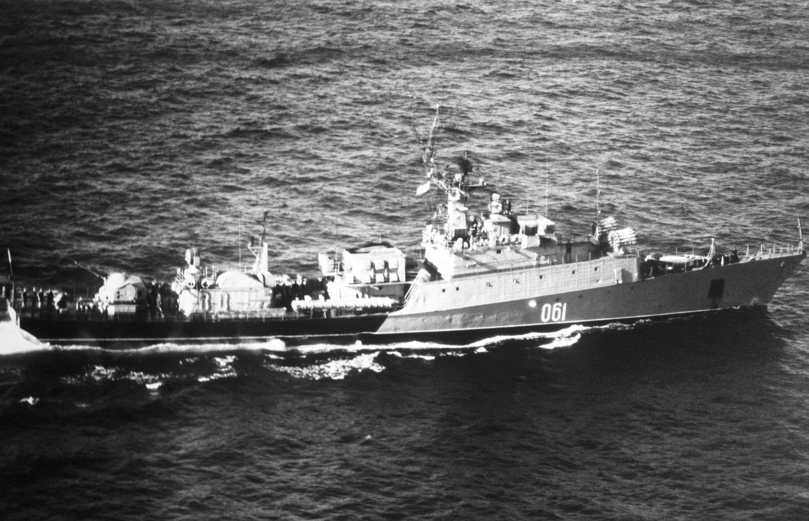 A starboard beam view of a Soviet Grisha I class frigate underway.